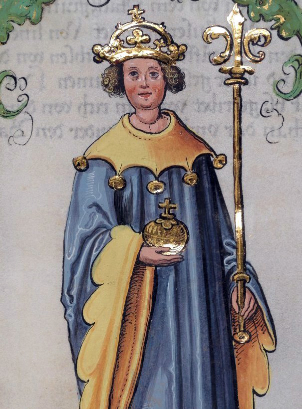 Otto IV, Holy Roman Emperor.